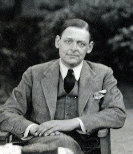 Thomas Stearns ('T.S.') Eliot with his sister and his cousin, by Lady Ottoline Morrell (died 1938).